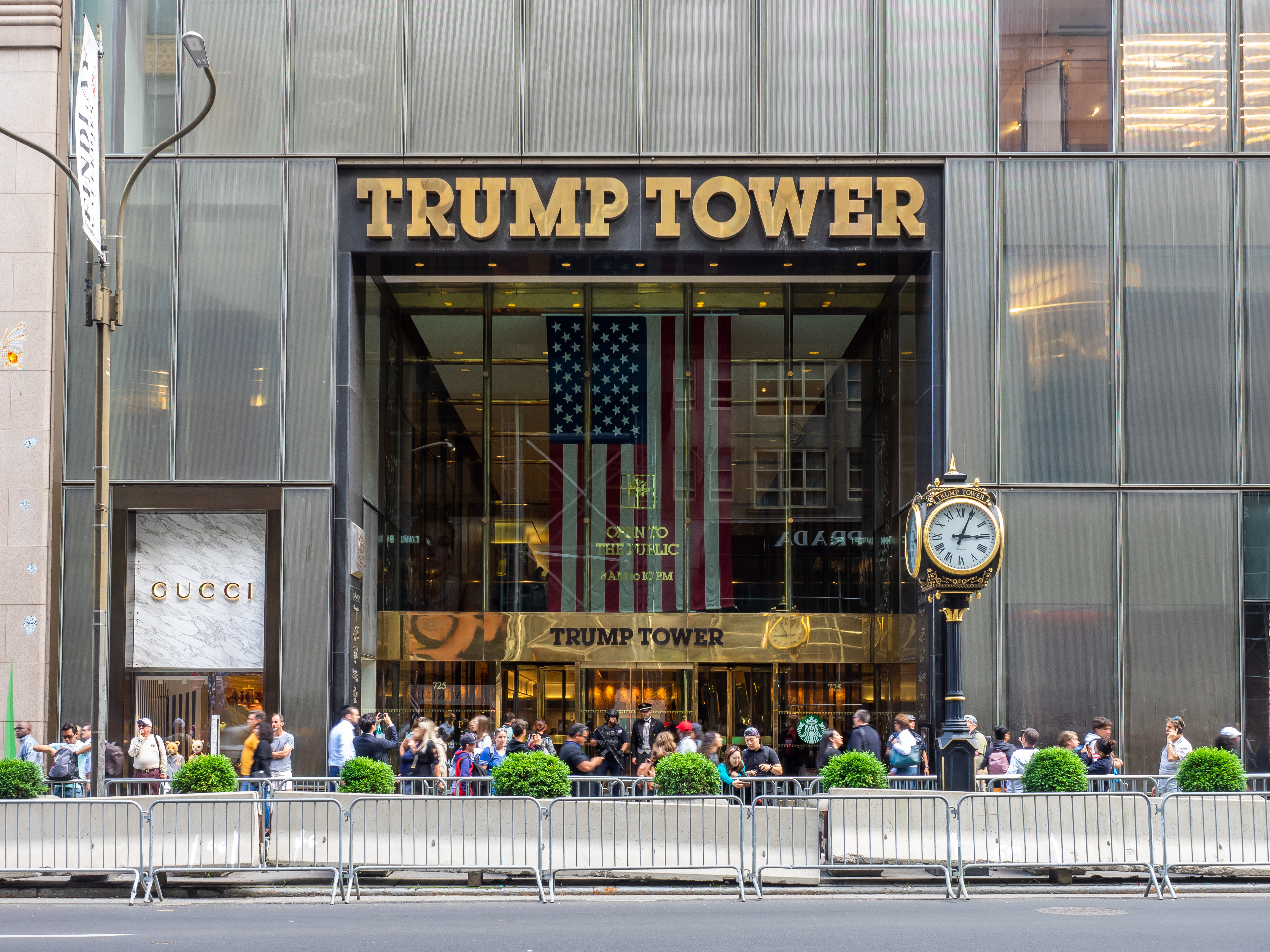 5th Ave, Midtown, NYC